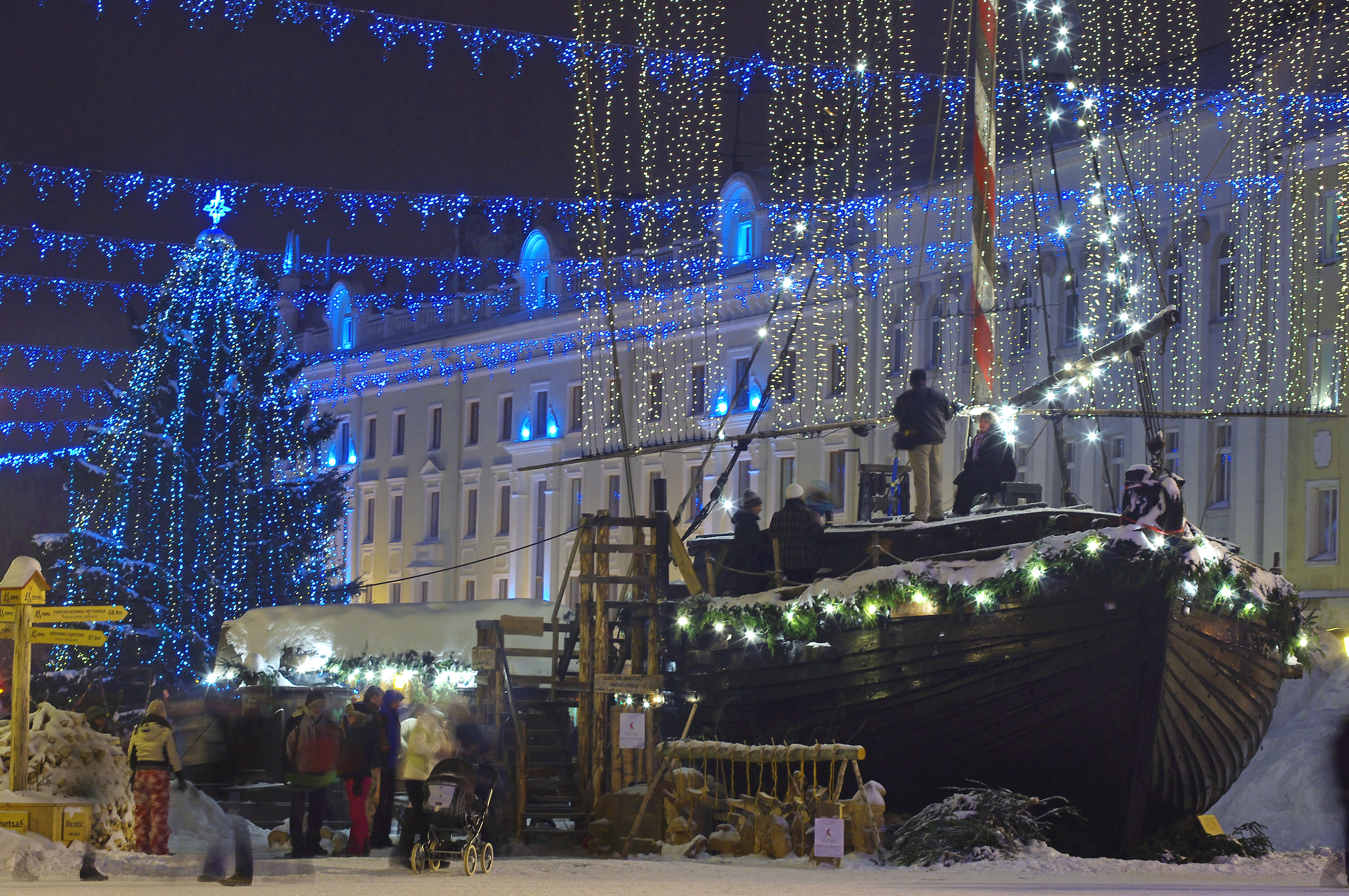 Sailing barge Jõmmu on Tartu Town Hall Square, December 19, 2010